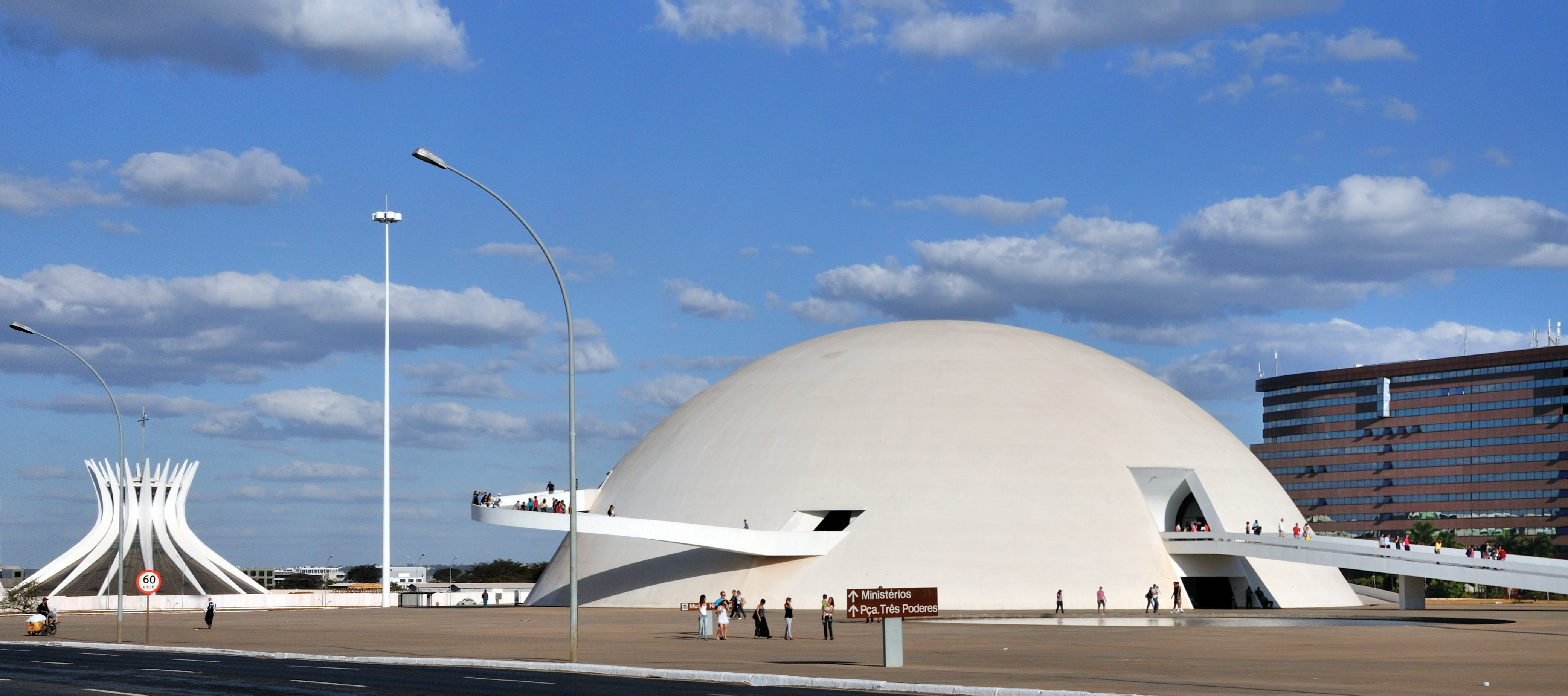 Brasília: National Museum Honestino Guimarães